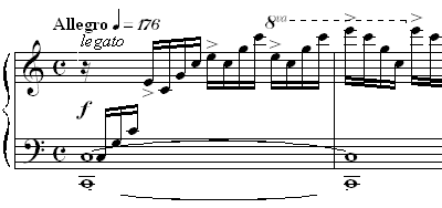 Excerpt from Chopin's Etude Op.10 No.1